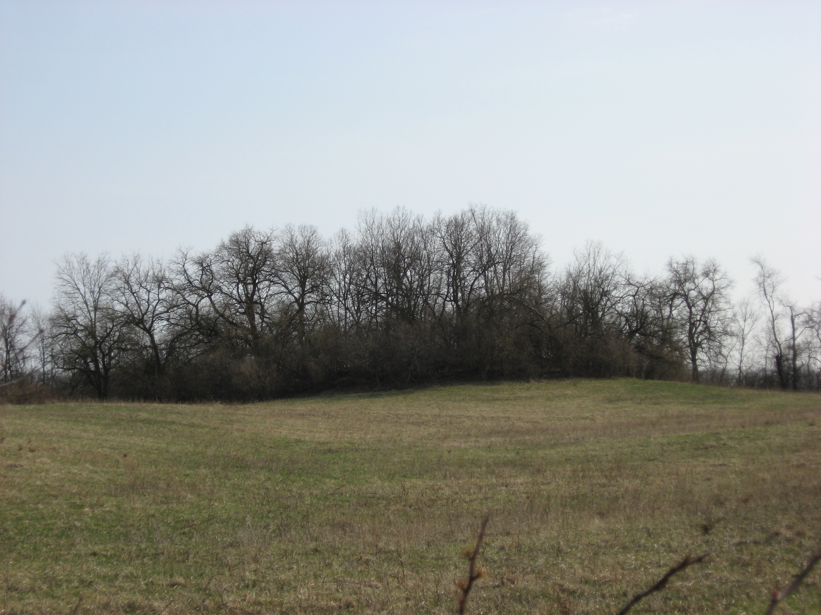 Northern side of the Mann Mound, located northeast of Jacksonburg in Section 12 of Wayne Township, Butler County, Ohio, United States. It lies on the southern side of Ginger Ridge Drive near its intersection with Jacksonburg Road north-northeast of Jacksonburg. Built by the Adena culture, the mound is an archaeological site and is listed on the National Register of Historic Places.